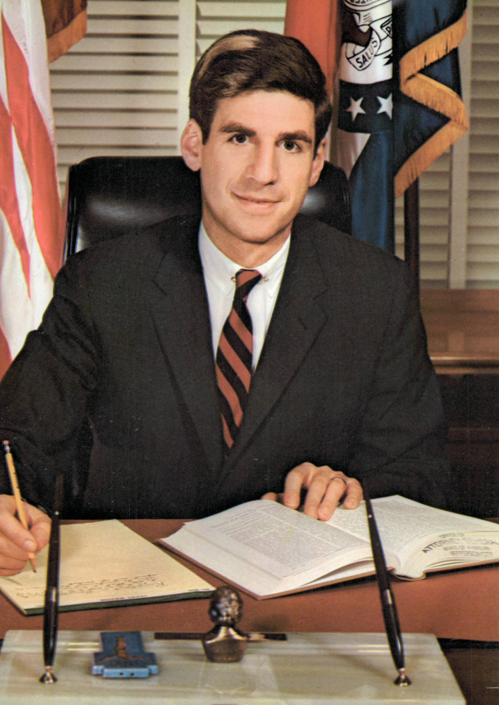 Portrait of John C. Danforth